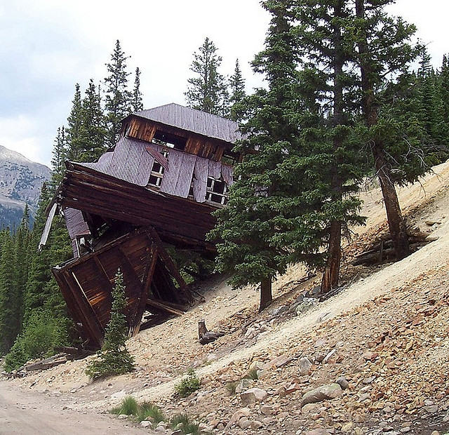 This used to be the bottom terminal of the Romley Tram, which brought ore from the Mary Murphy mine almost two miles down the hill to the railroad. Lack of a foundation has moved the structure into a, well, interesting configuration over the years.